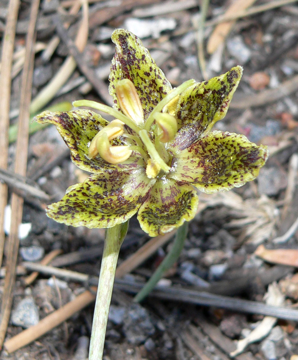 Fritillaria atropurpurea in forest at the Cathedral Rock/Little Falls trailhead, Kyle Canyon, Spring Mountains, southern Nevada (elev. about 2300 m)